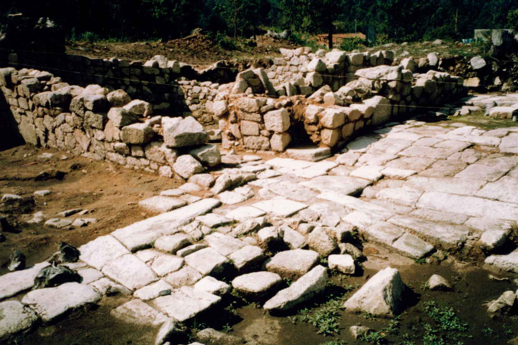 Hill Fort - Castro of Alvarelhos - Trofa - Portugal